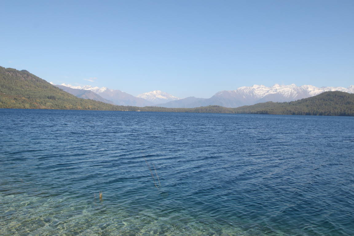 The Rara Lake (Nepali: रारा लेक) is the biggest and deepest fresh water lake in the Nepal Himalayas. It is the main feature of the Rara National Park, located in the Jumla and Mugu Districts. In September 2007, the lake has been declared a Ramsar site covering 1,583 ha (6.11 sq mi) including the surrounding wetland